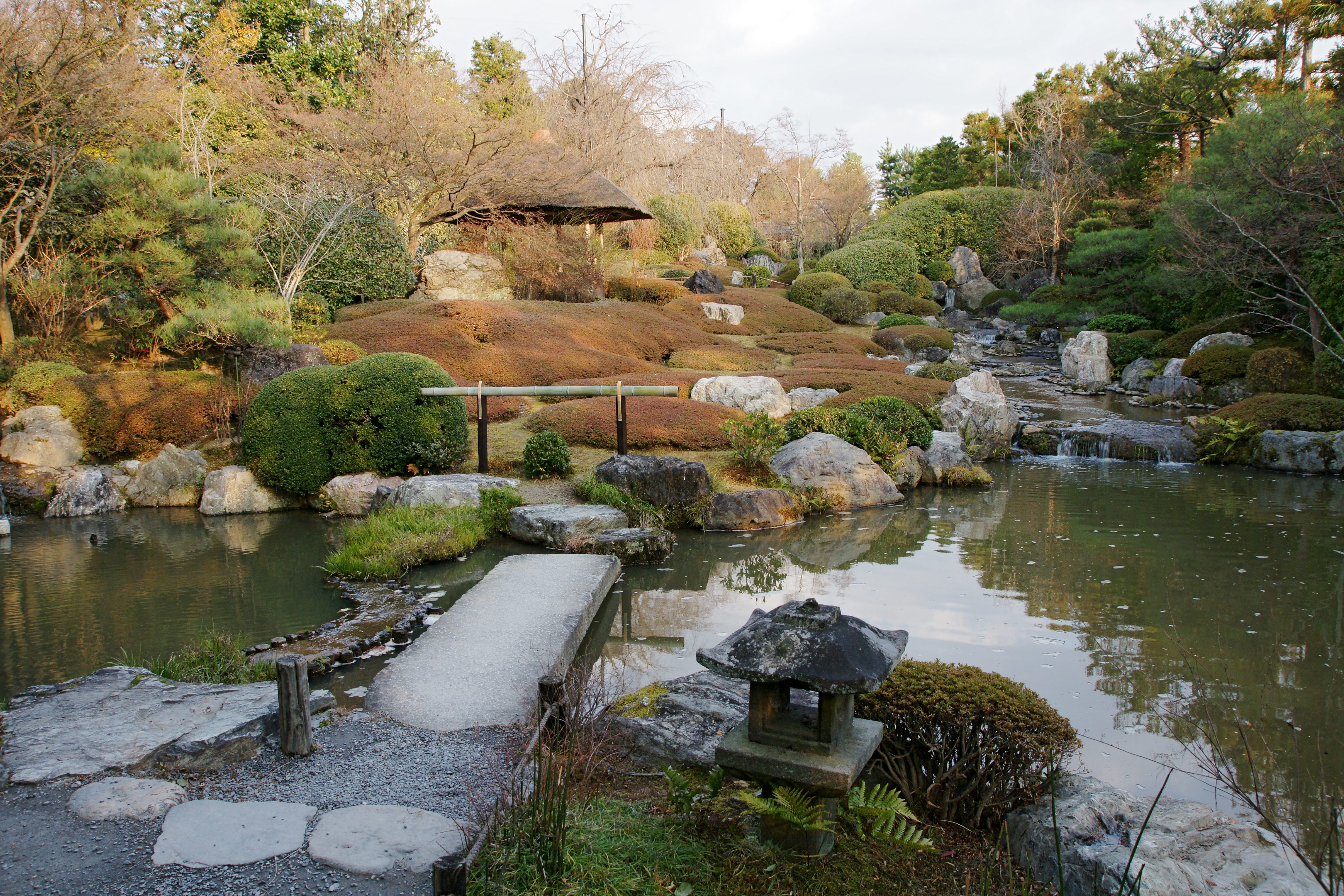 Myoshinji Taizoin, Kyoto, Kyoto prefecture, Japan